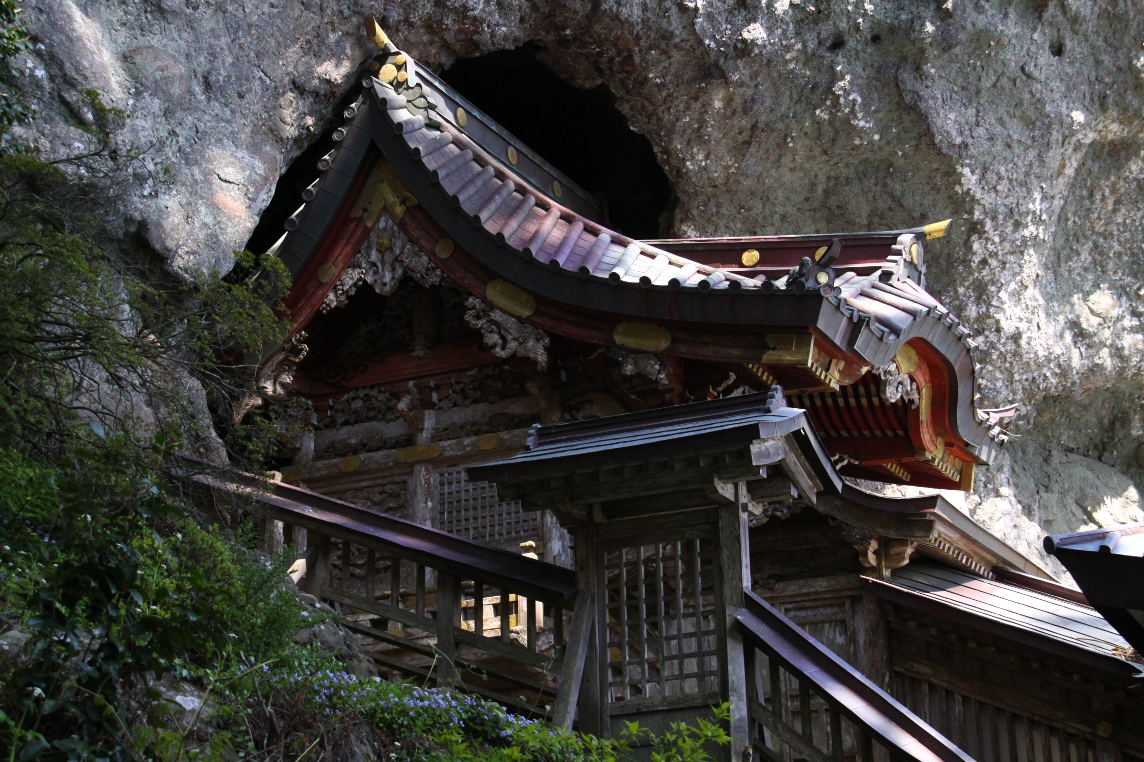 Takuhi jinja Honden